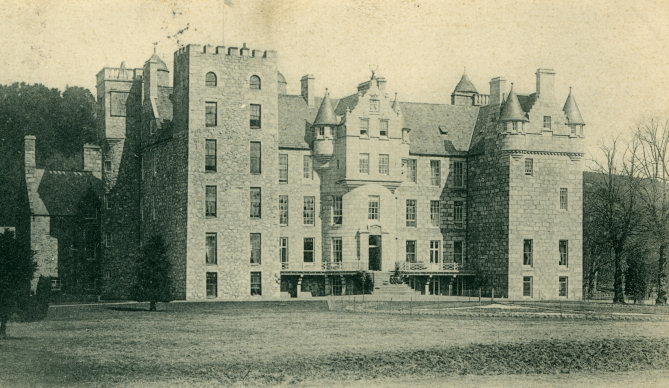 Aboyne Castle, Aberdeenshire